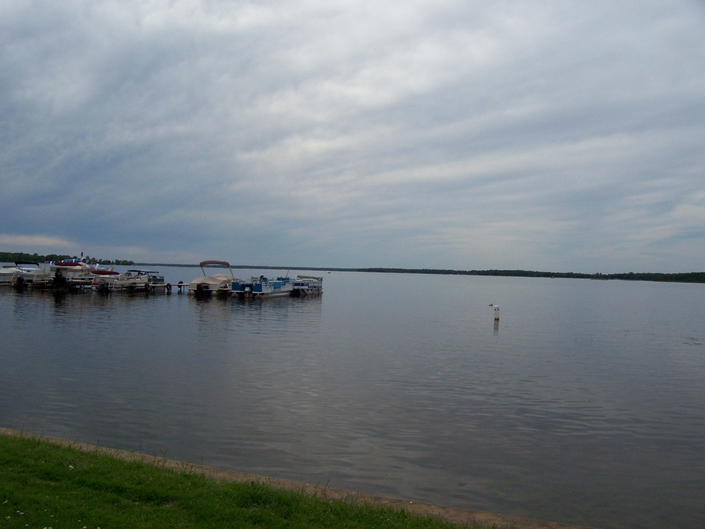 I took this image myself on June 11, 2006 looking west from the east shore of Shawano Lake, Wisconsin at a city park in Cecil. Category:Images of Wisconsin